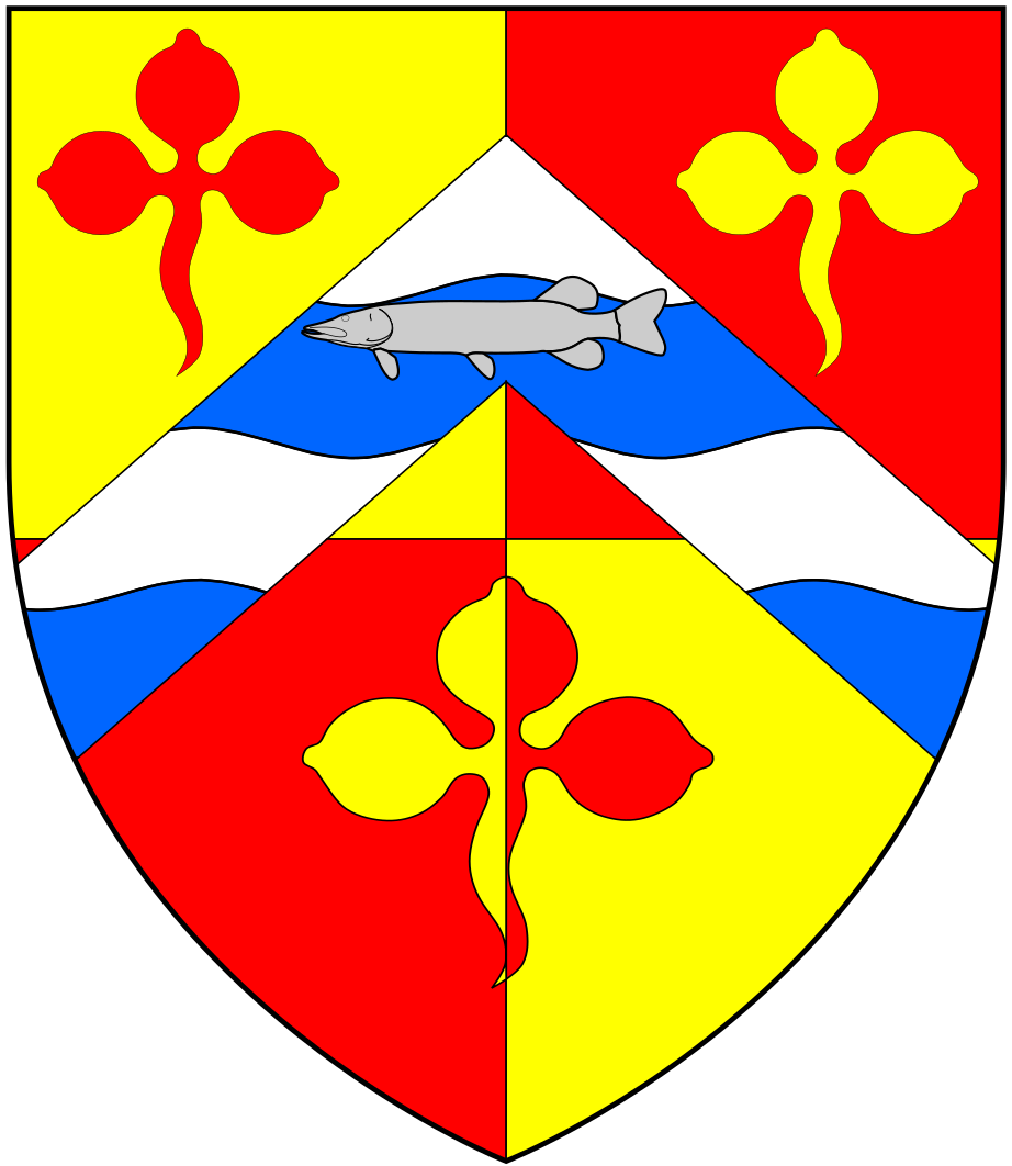 Arms of Pyke of Parracombe and Bydown House, Swimbridge, both in Devon: Quarterly or and gules, on a chevron barry wavy of four argent and azure between two trefoils in chief and another in base counterchanged a pike naiant proper (Source: Burke's Genealogical and Heraldic History of the Landed Gentry, 15th Edition, ed. Pirie-Gordon, H., London, 1937, p.1699, Pyke-Nott late of Bydown)